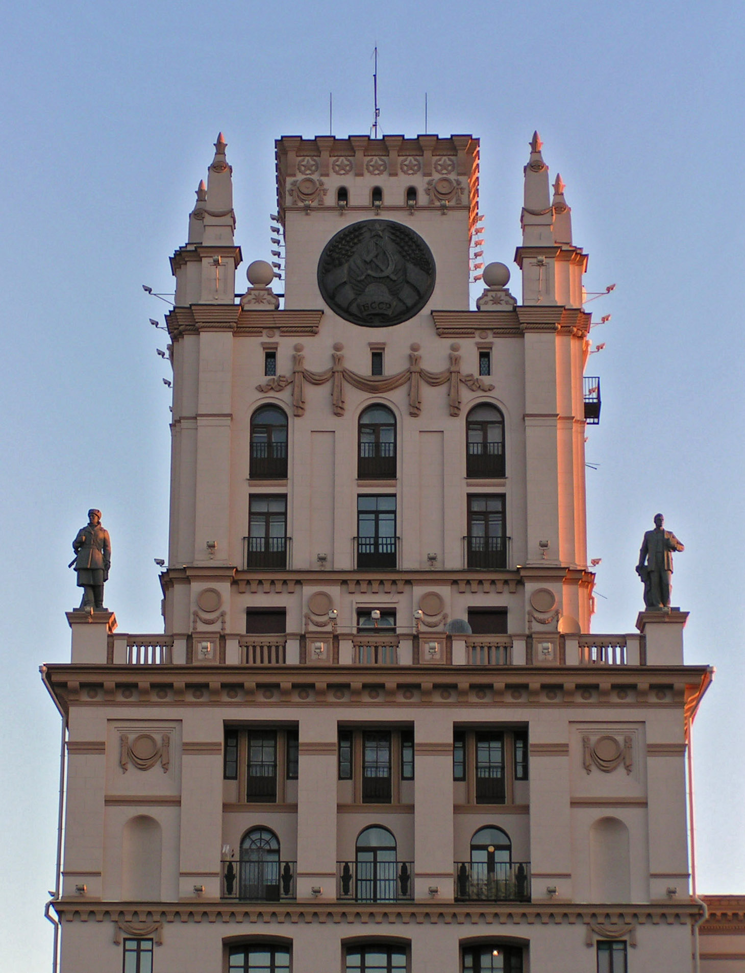 Беларуская (тарашкевіца): Будынак. г. Менск This is a photo of Belarusian heritage monument. Reference number: 712Г000067 ( WLM)